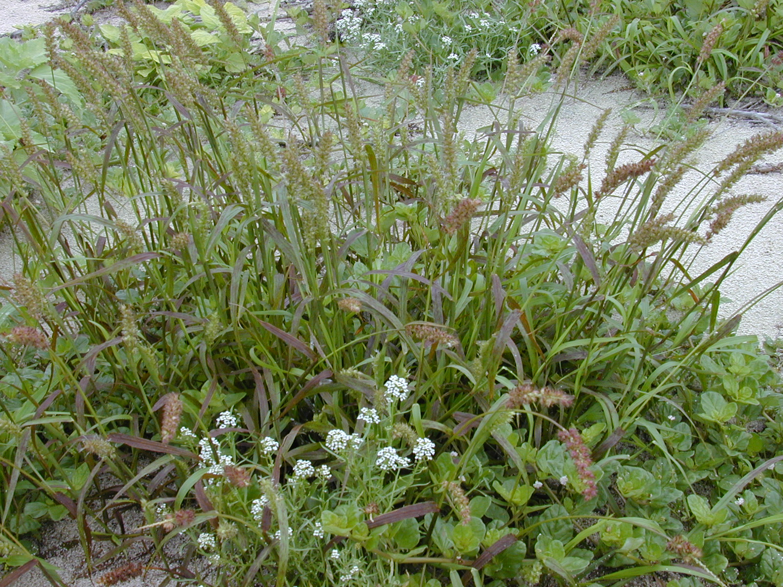 Cenchrus echinatus (habit). Location: Kure Atoll, Inland